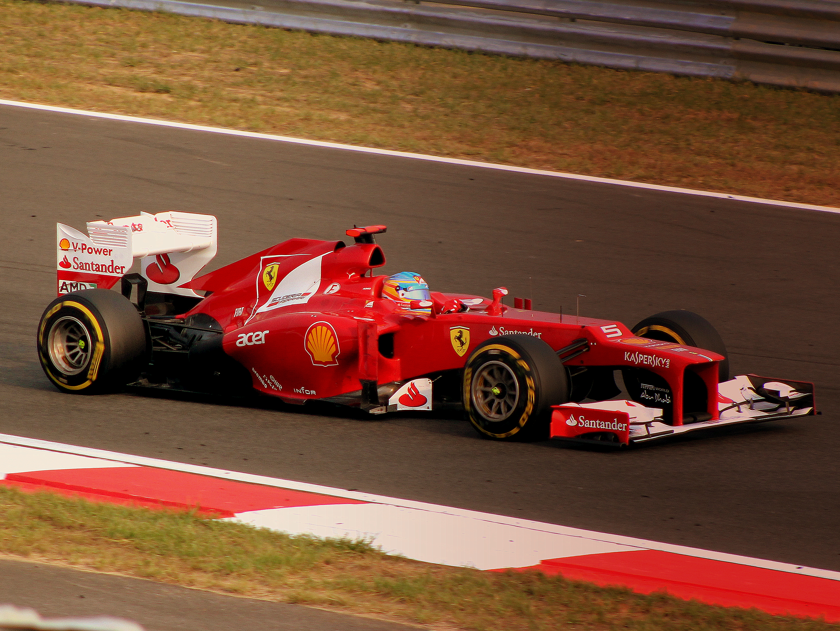 2012 FERRARI FERNANDO ALONSON NO5 AT THE YEONGAM GRAND PRIX SOUTH KOREA OCT